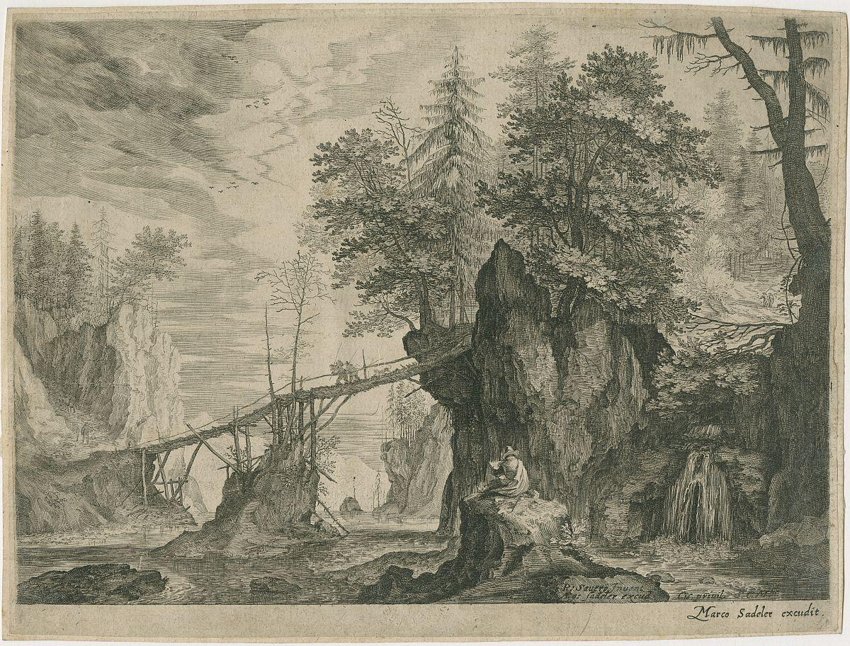 In this print the contrast between the dark rocks in the foreground and the light background is immediately noticeable. The figure of the draughtsman with his back turned to the viewer and who may possibly be identified with the artist himself is a rather common element in 19th-century art from the Southern Low Countries. Roelant Savery was the younger brother and pupil of the painter Jacob Savery. From 1604 Roelant Savery was in the service of the Roman-German Emperor Rudolph II and in 1612 of his successor Matthias in Prague (at that time the capital of the Holy Roman Empire, now of the Czech Republic), where Sadeler also worked as an engraver and print publisher. From 1607 Savery was commissioned to depict Tyrol (Central Europe). For this purpose he made studies after nature and thus painted the still jungle-like areas. Unlike Rubens’s landscapes, Savery’s landscape are realistic and recognisable. However, they are not purely realistic landscapes. For many landscapes he combined his Alpine studies with study drawings he made in the woods of Bohemia. The water and rich depth views are typical of Savery. This series is part of the earliest made in Sadeler’s studio after Savery. The first series bears the date of 1609. Object number PK.OP.16361 Object name copper engraving (visual work) Collection Old prints (visual works) Material papier (vezelproduct) Technique kopergraveren Dimensions: hoogte: 203 mm (plaatrand) breedte: 263 mm (plaatrand) hoogte: 206 mm (geheel) breedte: 275 mm (geheel)